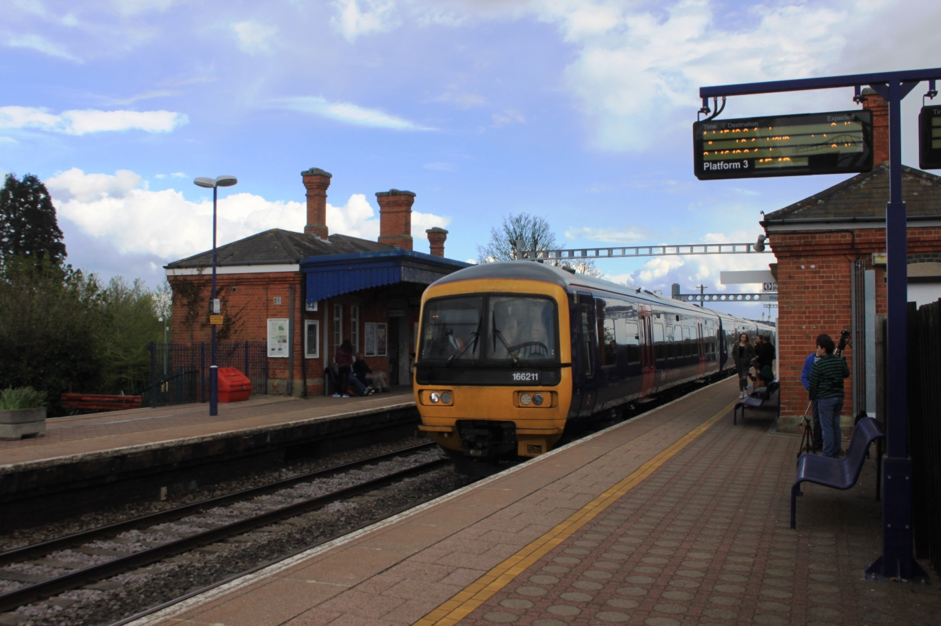 Great Western Railway's 166211 arrives at Cholsey with a London Paddington to Oxford service.